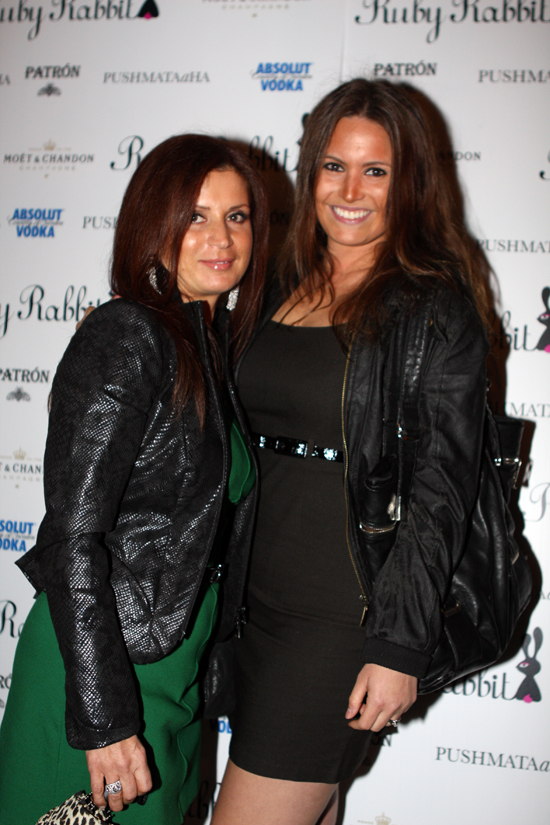 Ruby Rabbit Relaunch VIP Party Attracts Hip Crowd